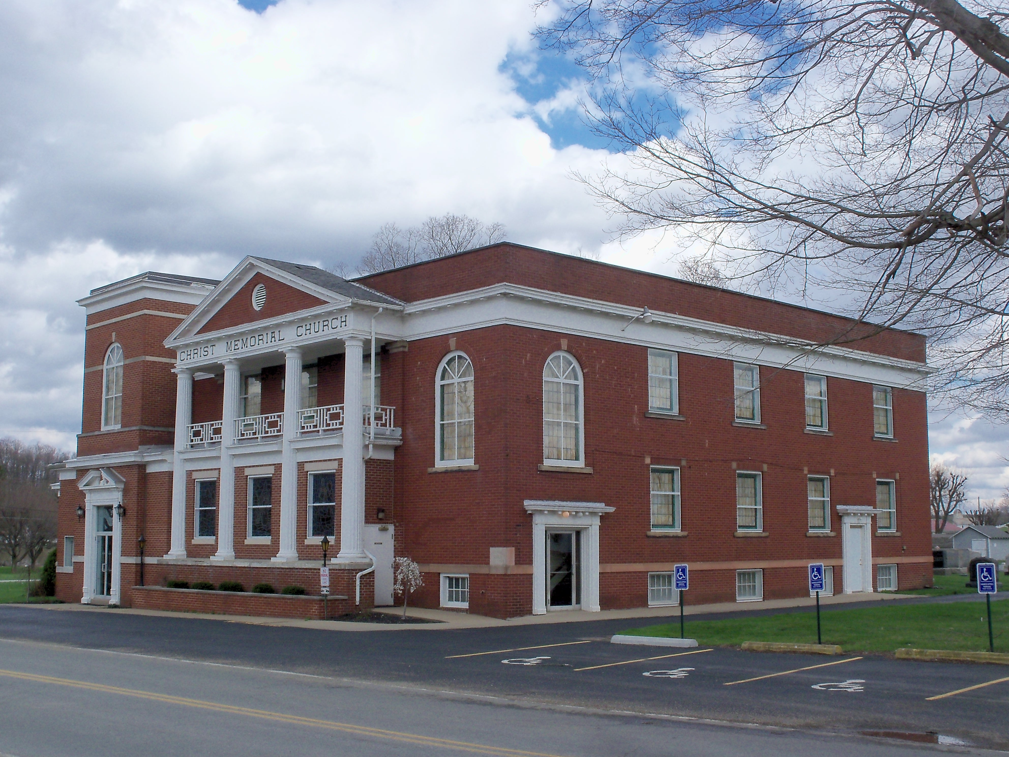 1926 Reformed Church in Robertsville, Ohio